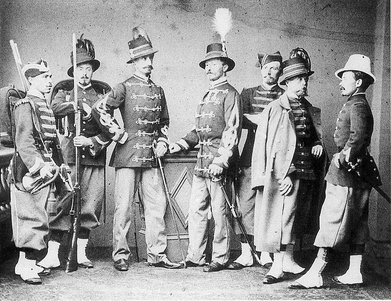 Belgian Legion of Maximillian's army